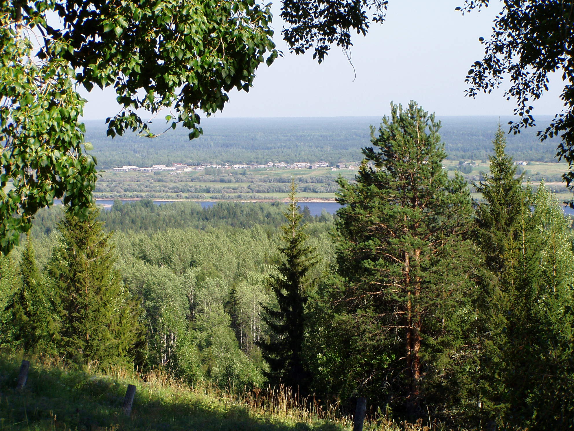 View of the River Pinega, the village of Petrov and taiga with the Red Hills